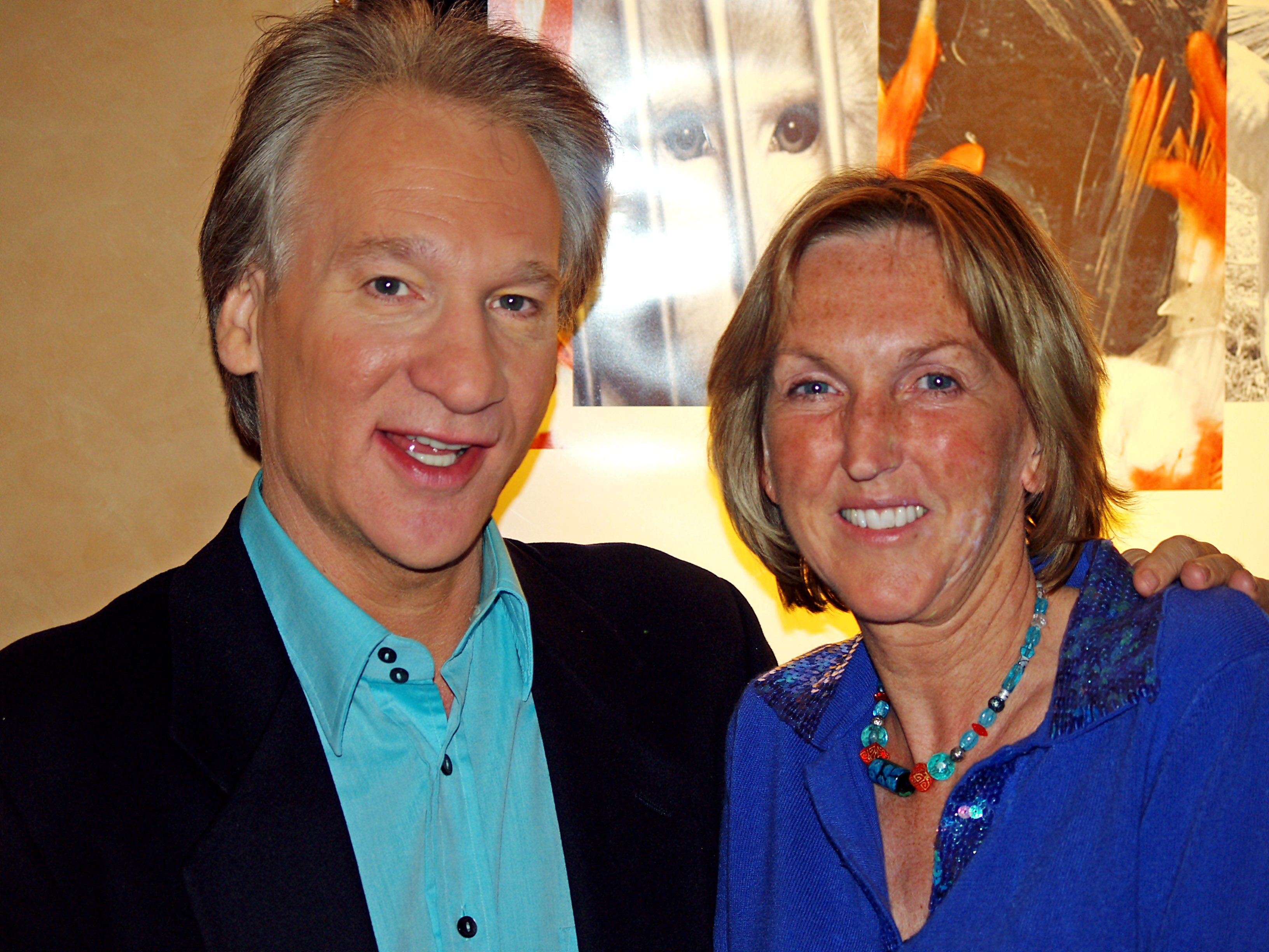 Bill Maher and Ingrid Newkirk